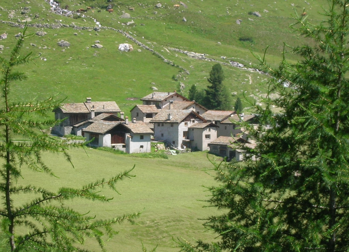 Platta, Val Fex, Segl, Engiadina, Grischun, Svizra (Platta in the Fex Valley in Switzerland). Trees in foreground are Larix decidua.